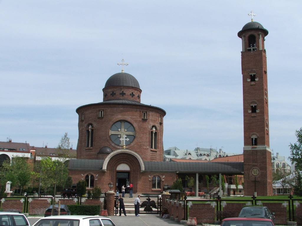 Church of St. Basil of Ostrog (Serbian Orthodox) in Belgrade, Serbia